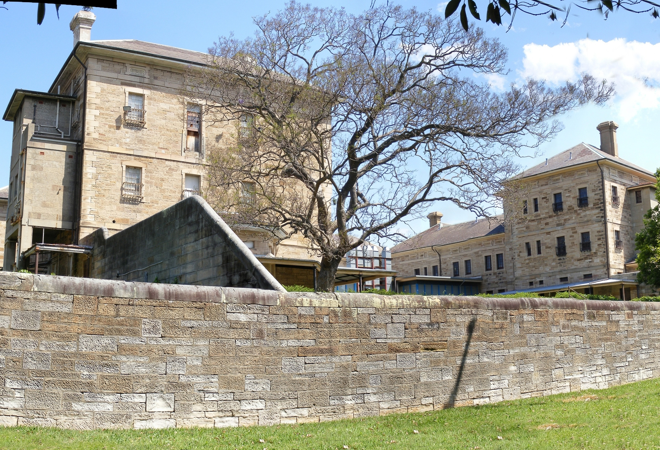 Callun Park